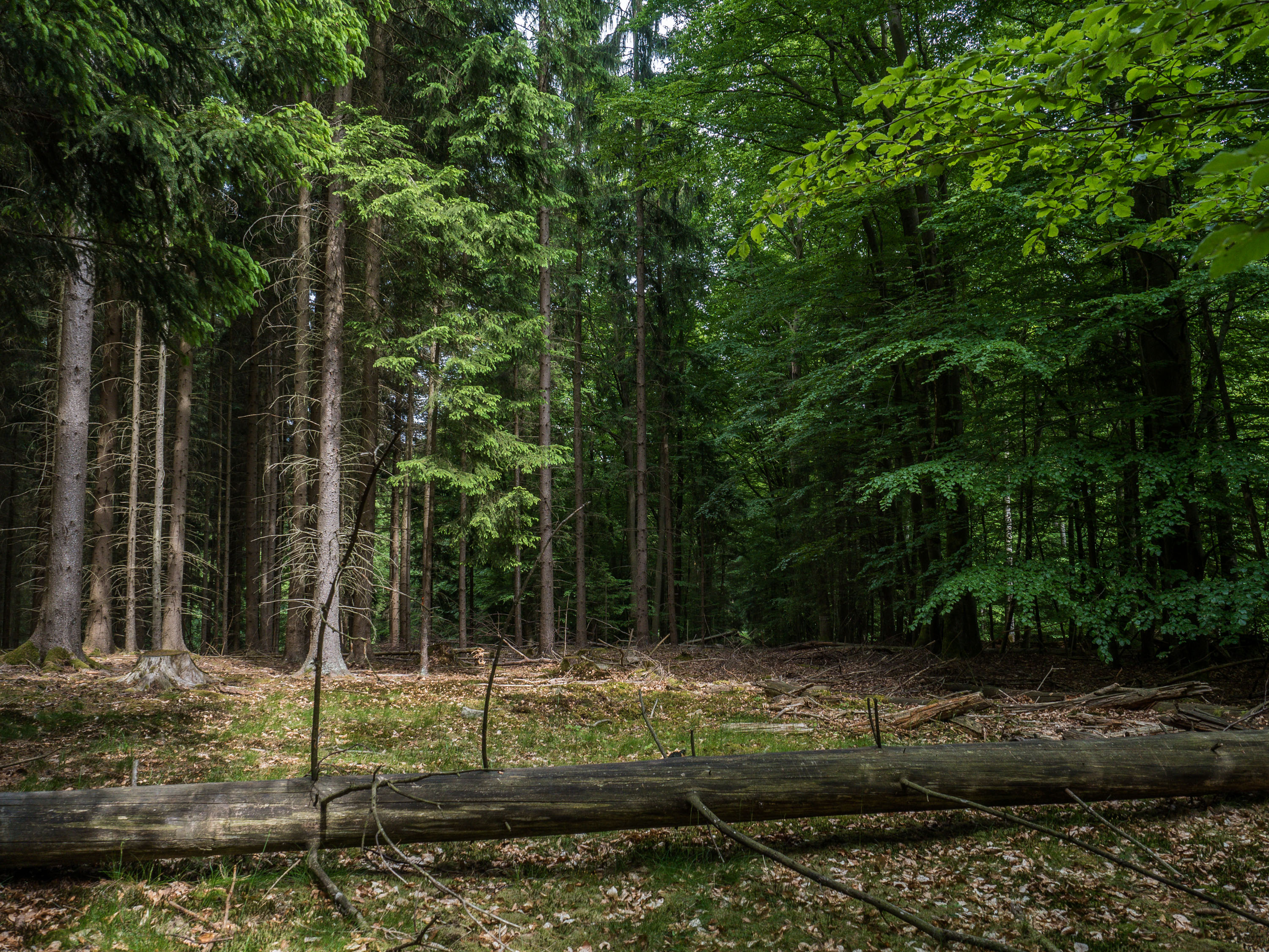 Natural forest reserve Brunnstube